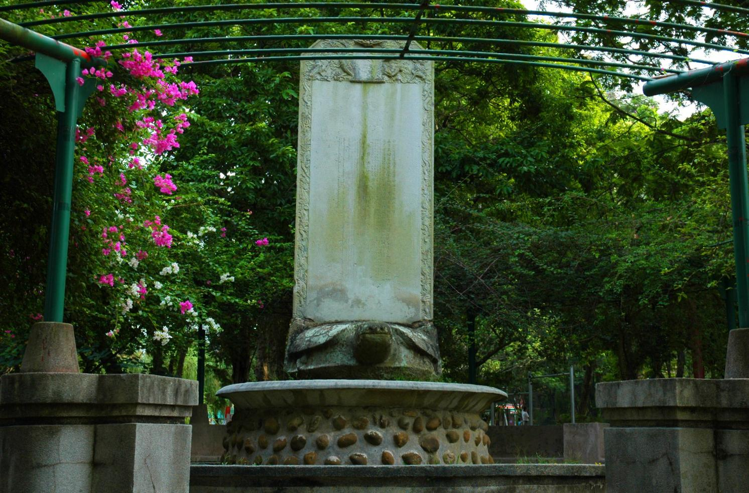 Chia Yi Park Ching Dynasty Memorial Stone Tablet中文（台灣）: 嘉義市嘉義公園的福康安紀功碑。